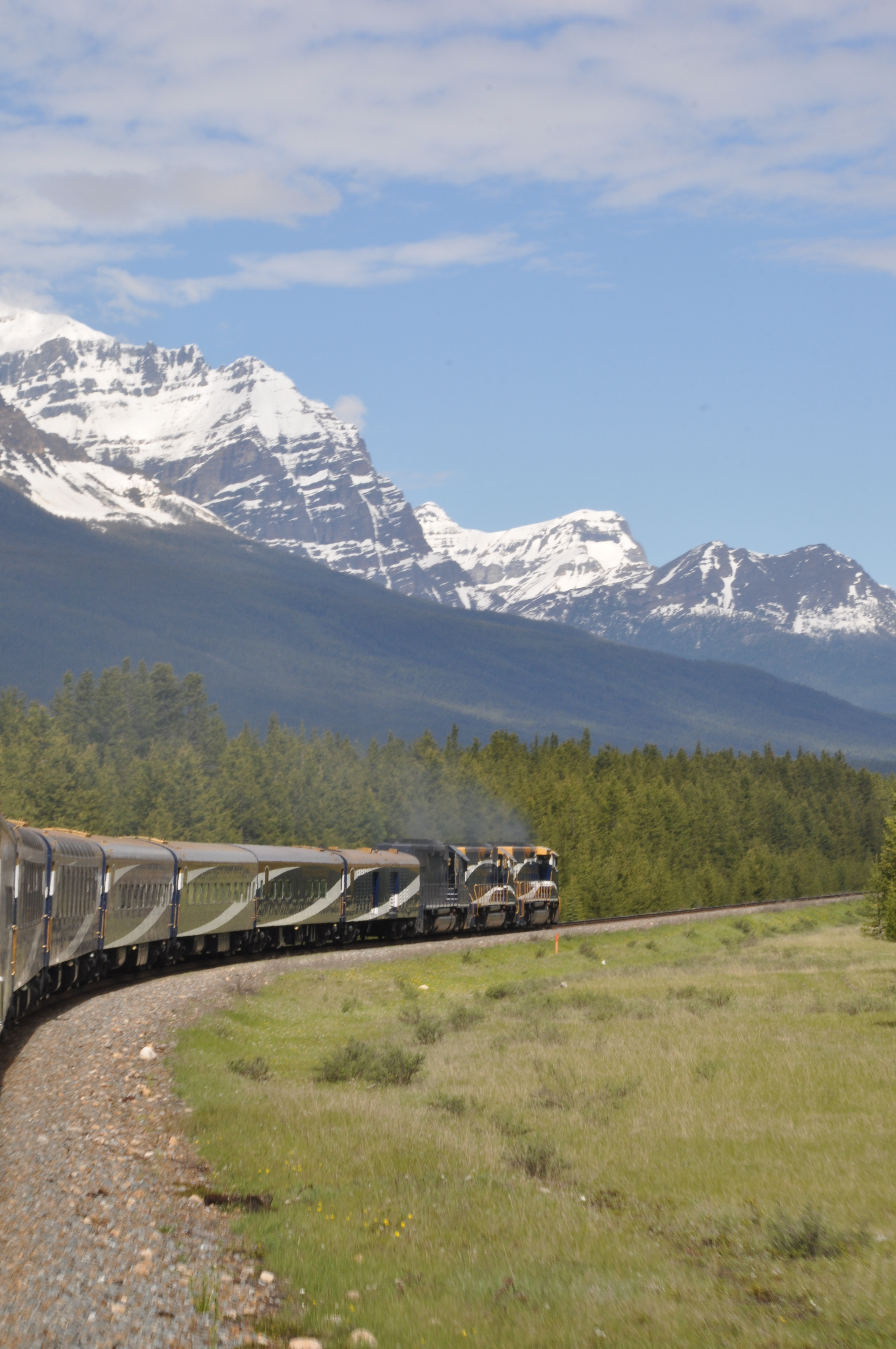 Rocky Mountaineer train with Rockies in background